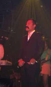 Handsome Boy Modeling School at Irvin Plaza, NYC - 4/20/05